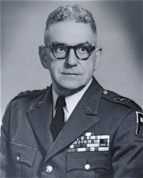 General Edward J. O"Neill, commanding general, First United States Army.